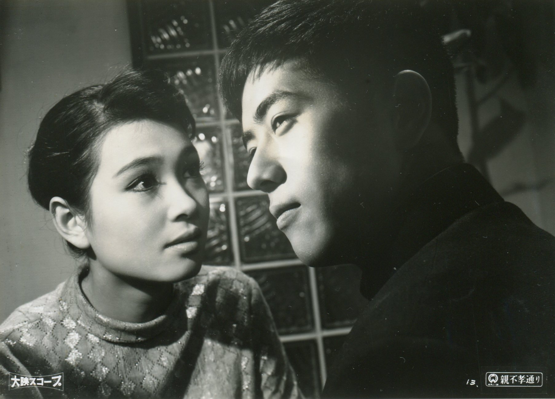 From L to R: Hitomi Nozoe, Hiroshi Kawaguchi in "Oyafuko Dōri" (1958) - publicity still